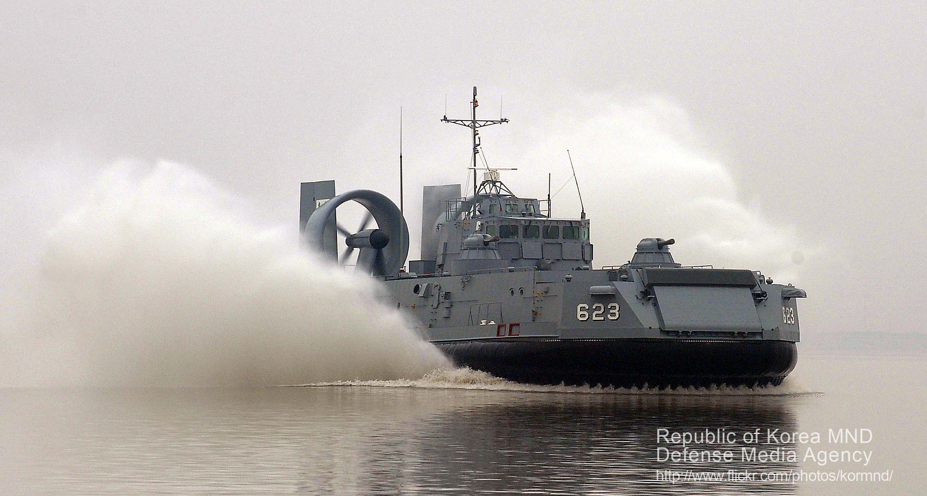 2011 국방화보 Rep. of Korea, Defense Photo Magazine 해병2사단 기동타격대 공기부양정이 기동훈련을 하고 있다.